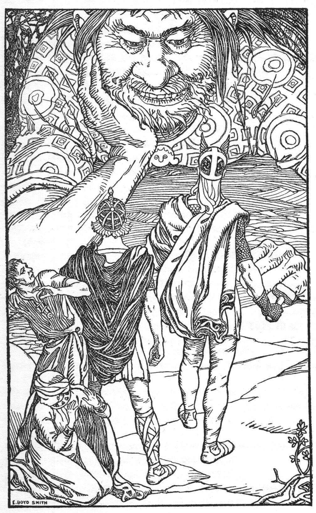 "I am the giant Skrymir" by Elmer Boyd Smith. Thor, with his hammer Mjolnir, confronts the jötunn Skrymir.